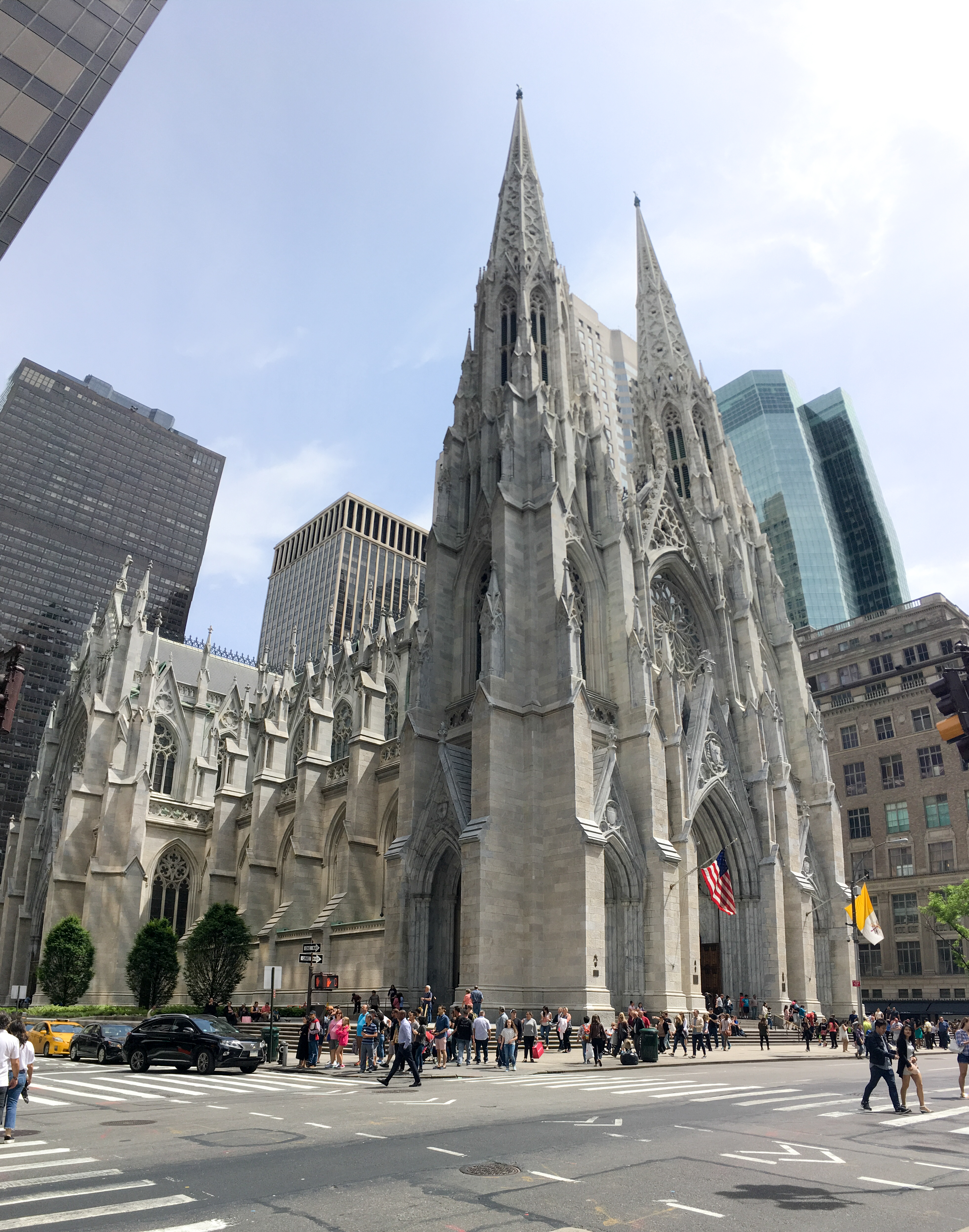 Manhatten, New York City